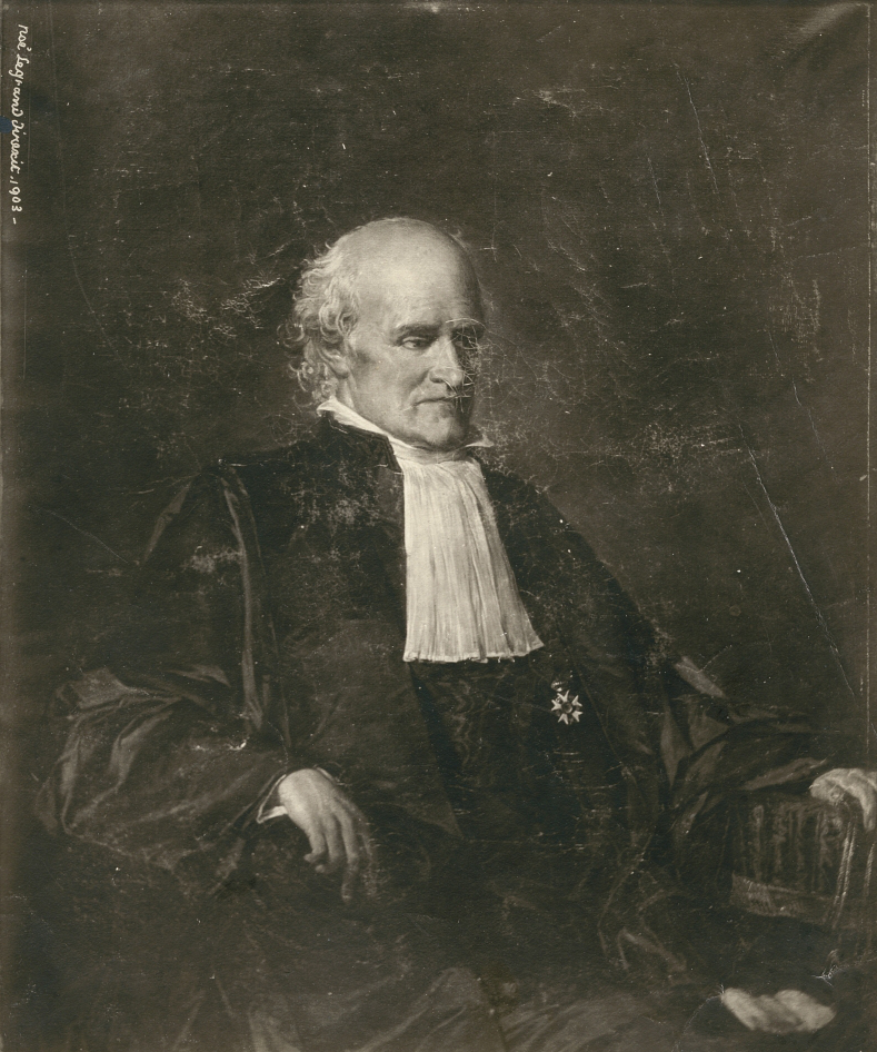 Raphael Bienvenu Sabatier (1732-1811) French Physician